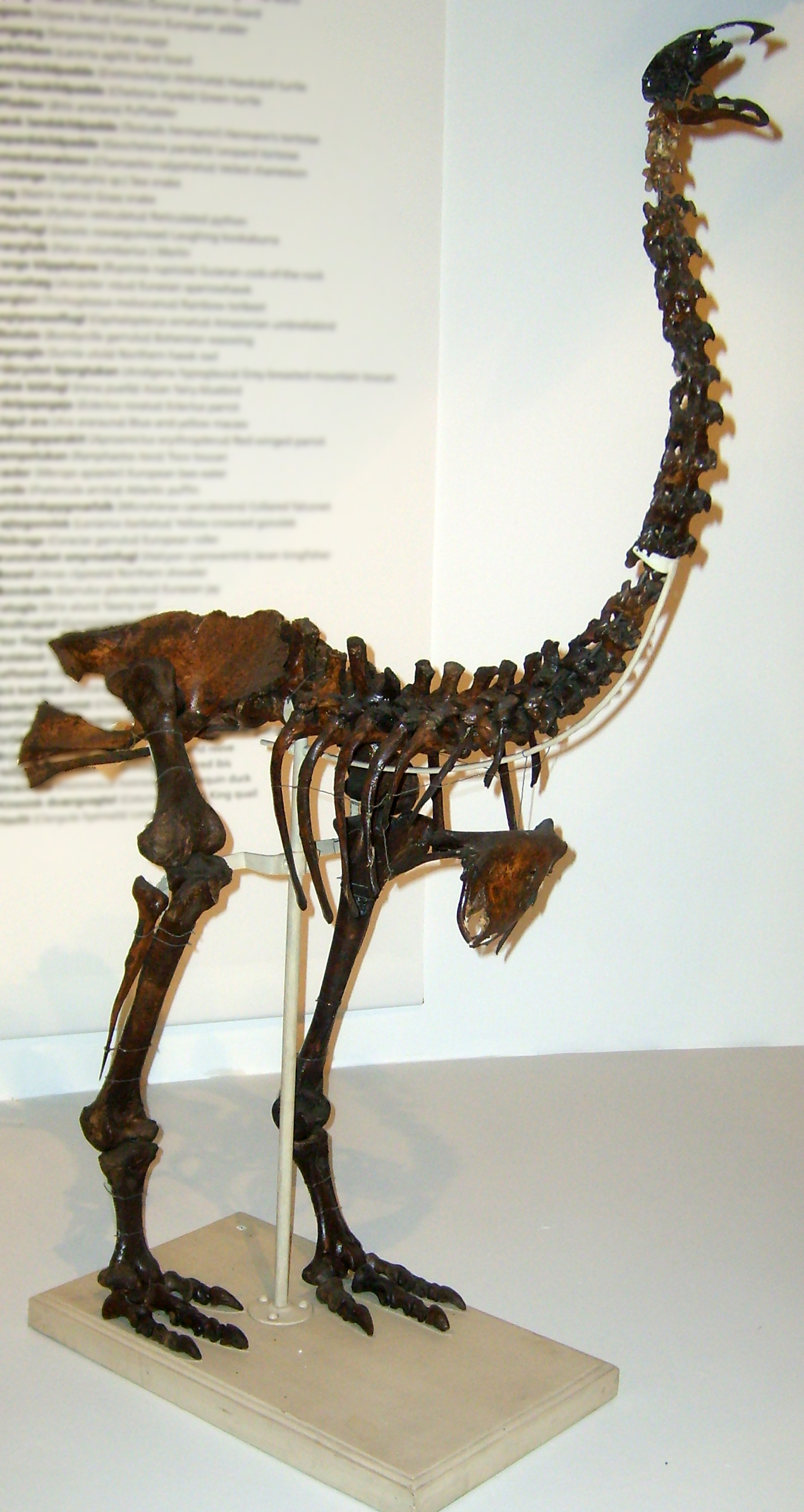 Emeus crassus fossil, Zoologisk Museum, Copenhagen.